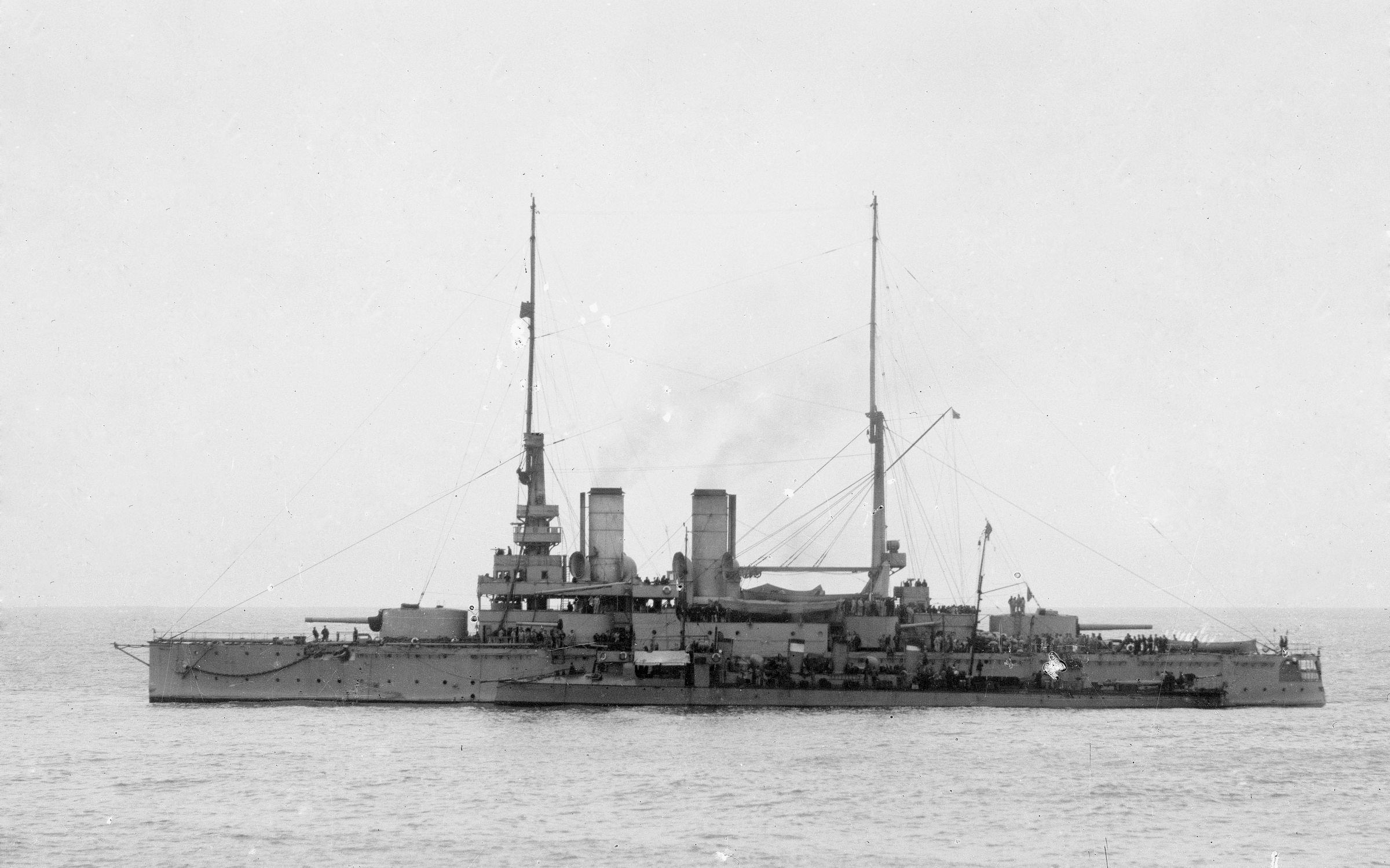 The Imperial Russian battleship «Rostislav» and destroyer «Zvonkiy».